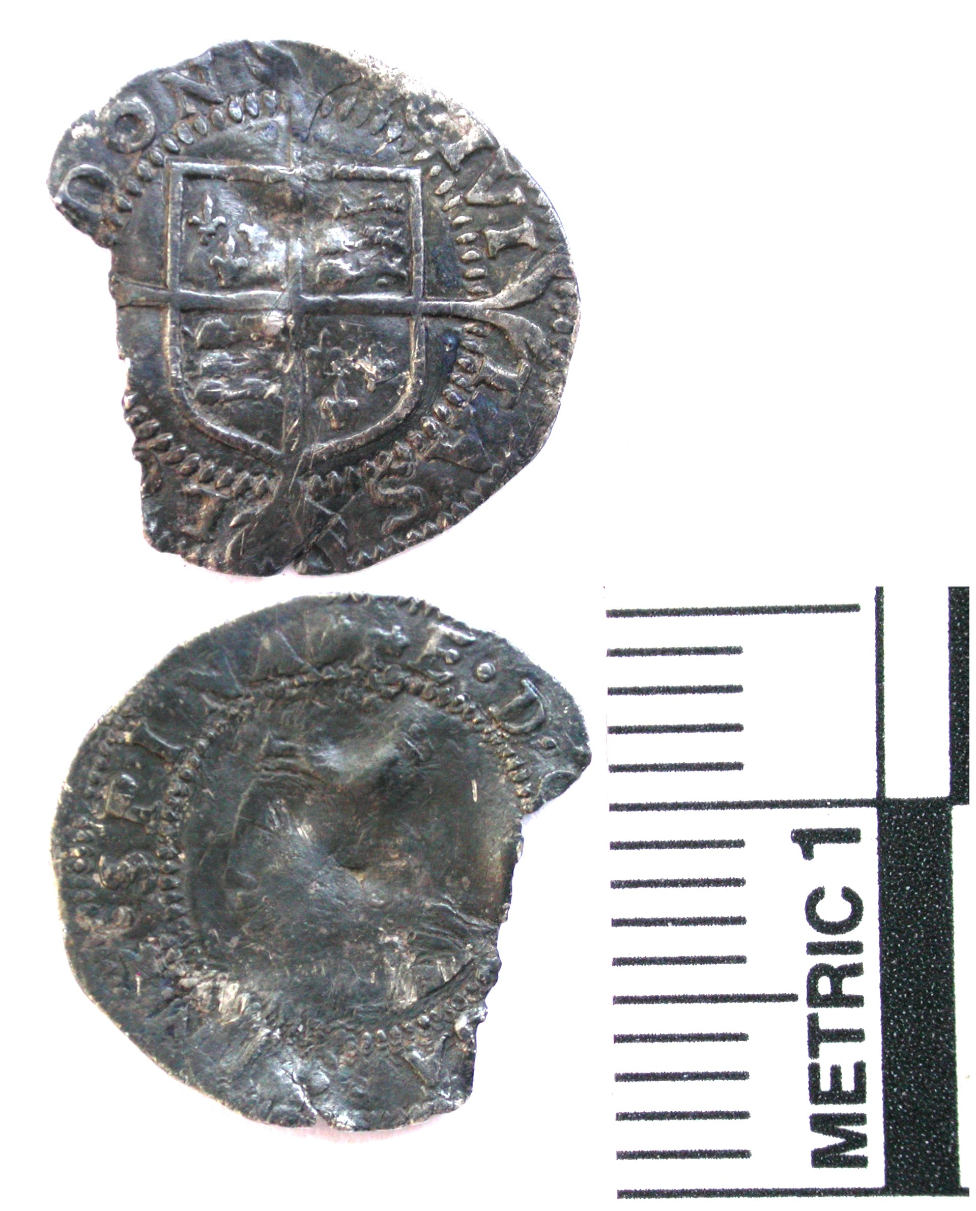 A silver penny of Elizabeth I of England Mint: London (Tower) Type: (N 1988). Obverse description: Crowned bust left. Obverse inscription: E DG [ROS]A SINE SPINA. Reverse description: Straight sided shield with cross fourchee over. Reverse inscription: CIVITAS L[ON]DON. Initial mark: Lis (1558-60)